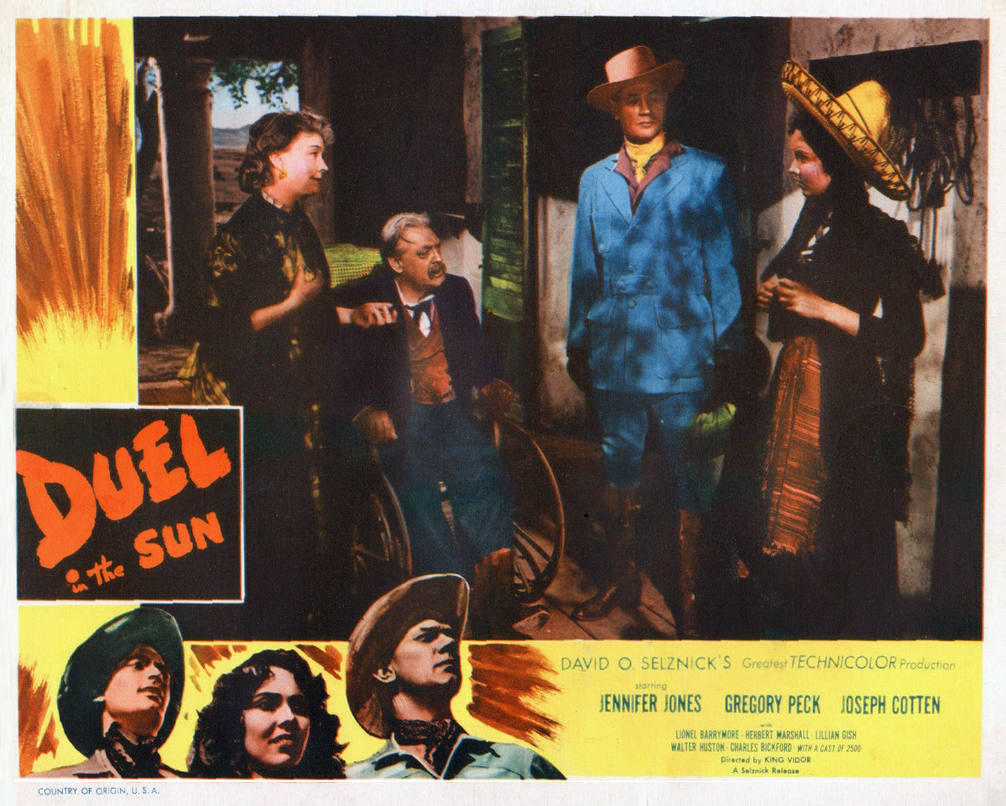 Lobby Card for American psychological Western film Duel in the Sun (1946)